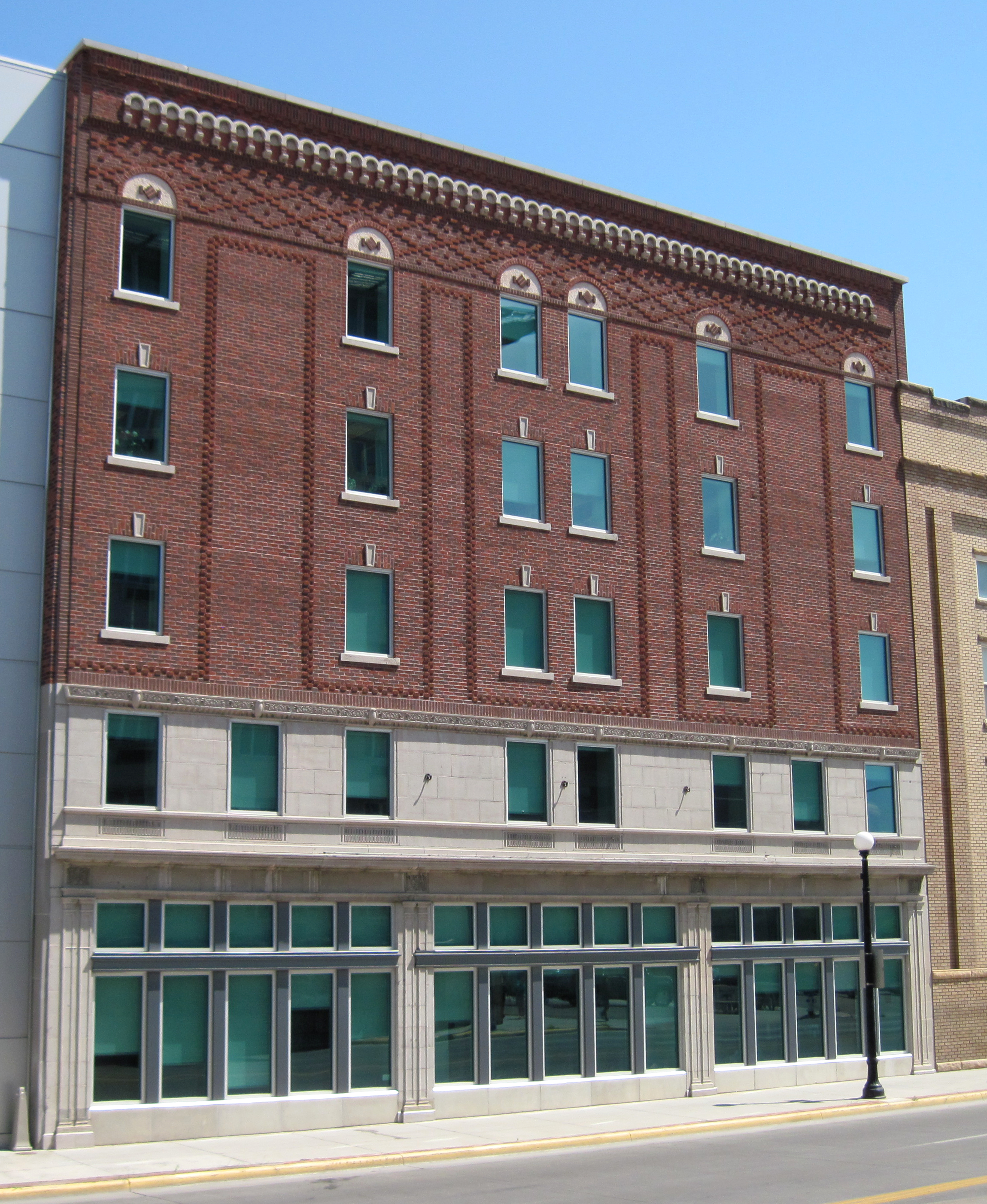 Front facade of the former Townsend Hotel at 115 N. Centre St. in Casper, Wyoming.